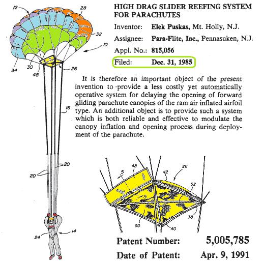 US Pat. 5005785 Filed Dec. 31, 1985. Approved: April 9, 1991.